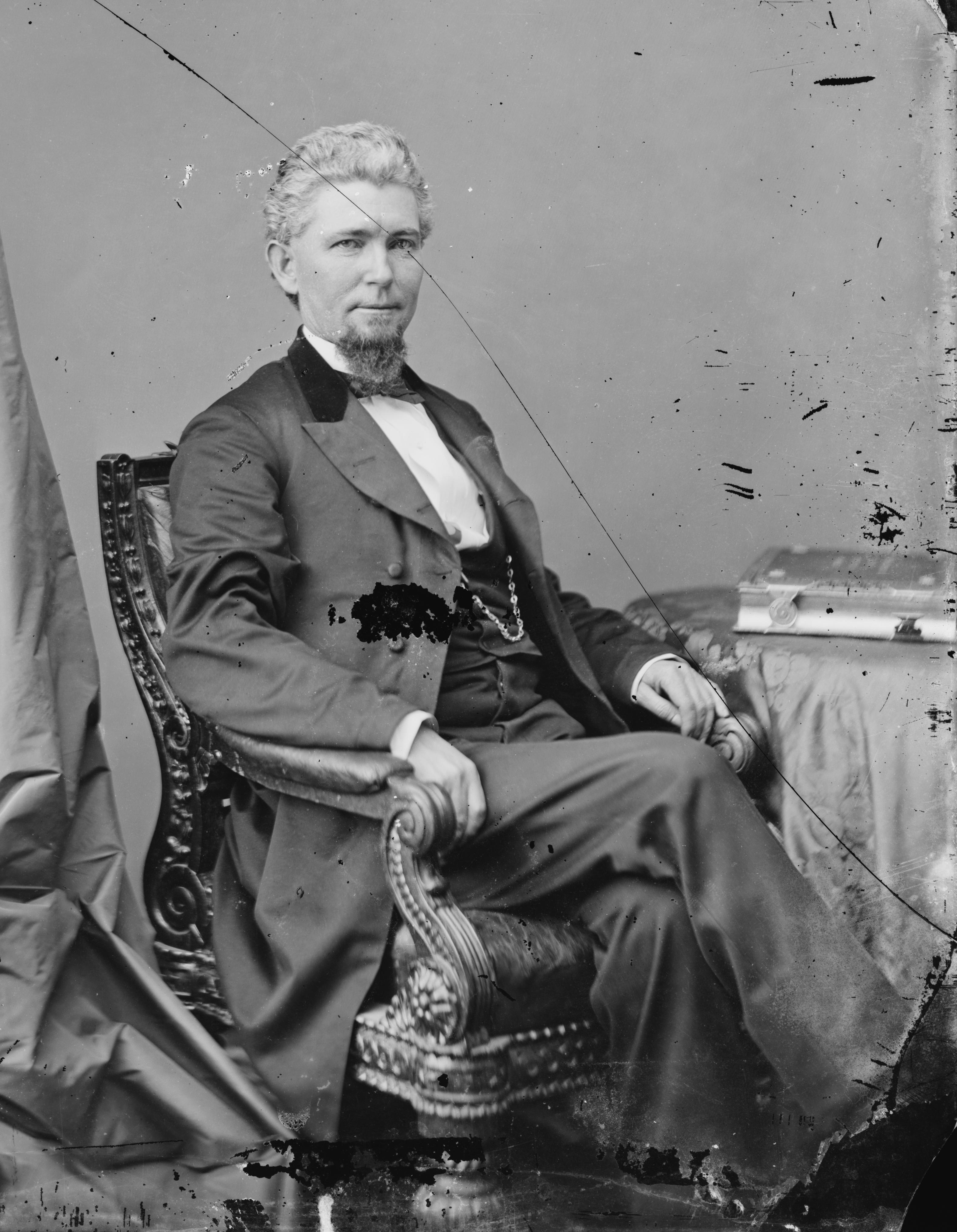 James Falconer Wilson. Library of Congress description: "Hon. James Falconer Wilson of Iowa"